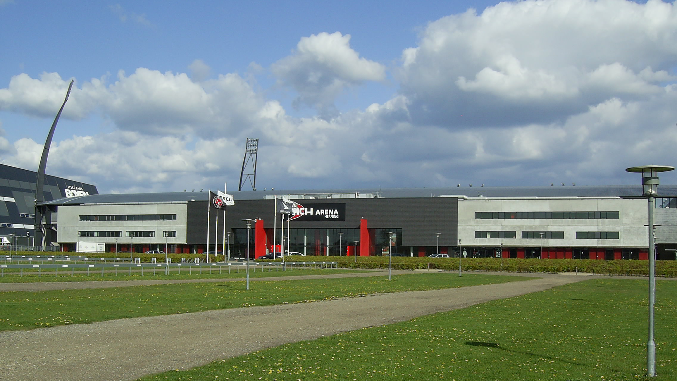 MCH Arena, the stadium near Messecenter Herning